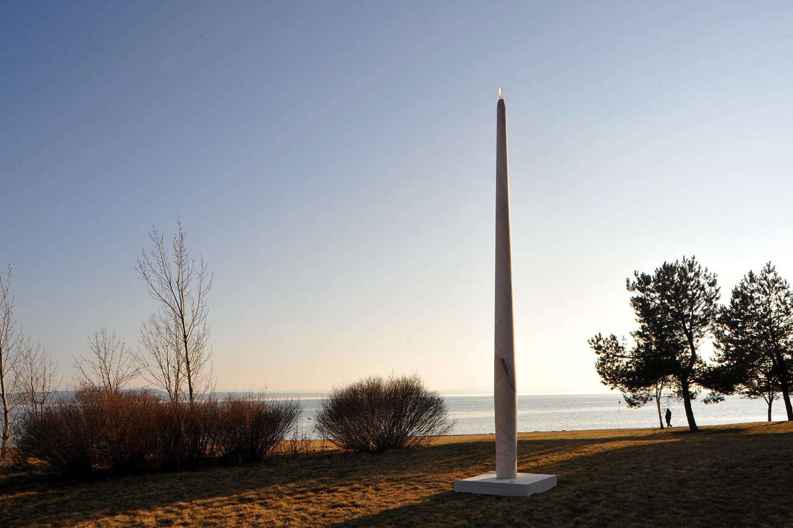 Commemorative-stele for Maurice Bavaud beside the Laténium in Hauterive; Neuchâtel, Switzerland. The five meter high spindle-shaped stele is a work by Charlotte Lauer of 2011. At the top of the spindle of Jurassic Limestone is a rock crystal.